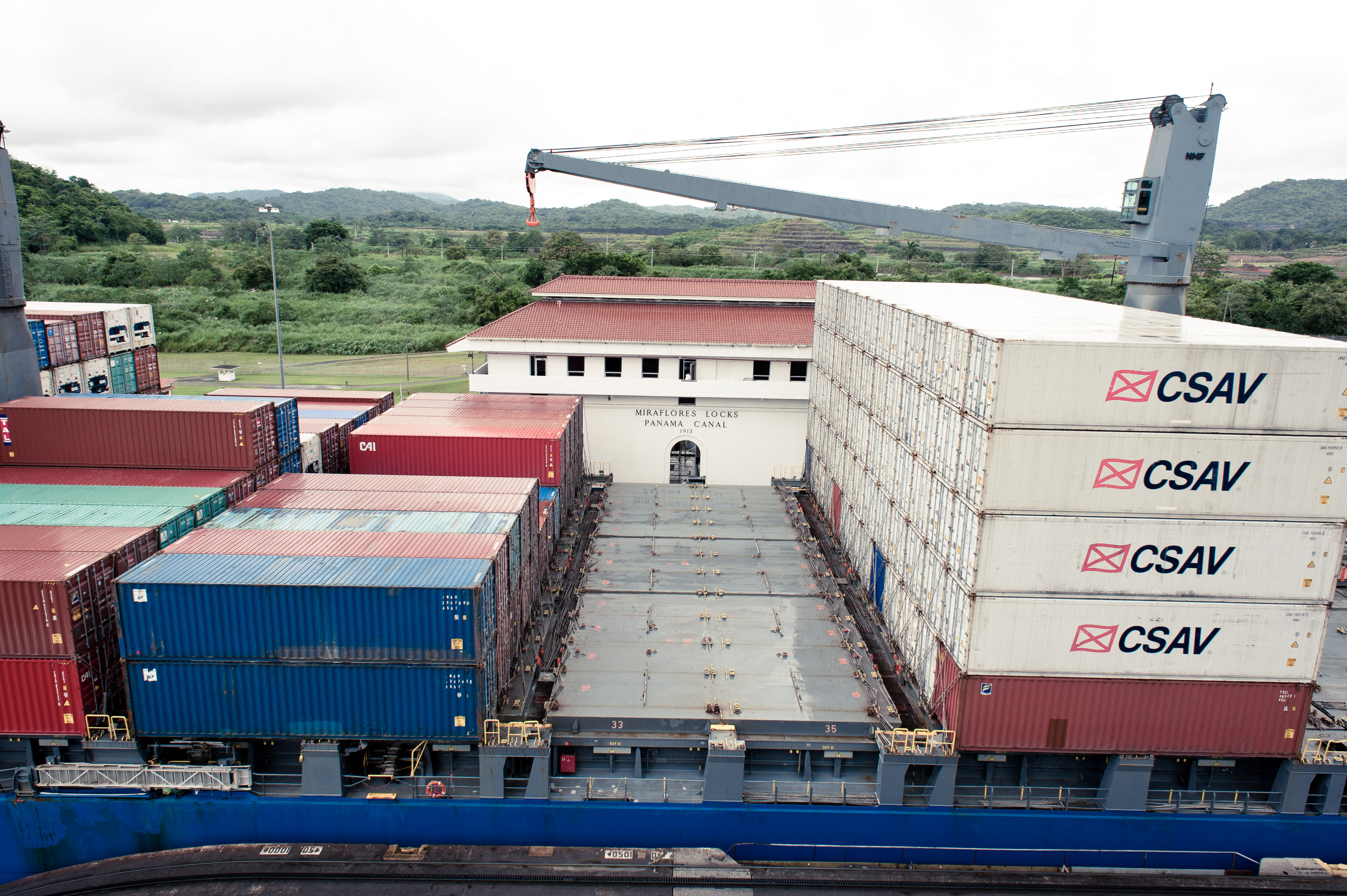 It actually take up to 30m for a container ship of this size to pass through the lock, in 3 different stages where it is lowered slowly to the level of the sea on the Pacific Ocean side (assuming it's coming from the Atlantic)